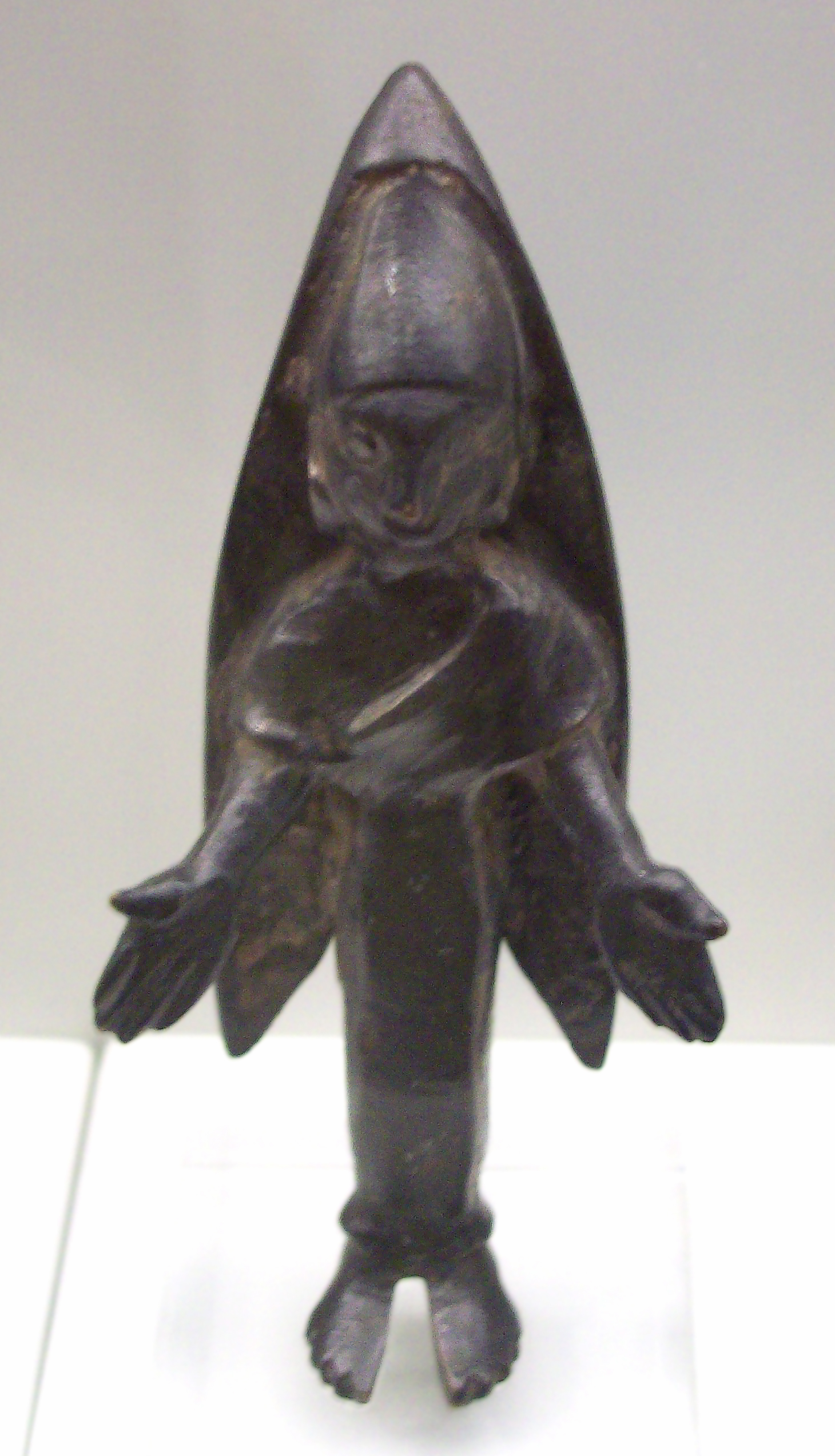 A Bastulian ex-voto. It's a female figure with a long veil on her head and extended arms in offering position.